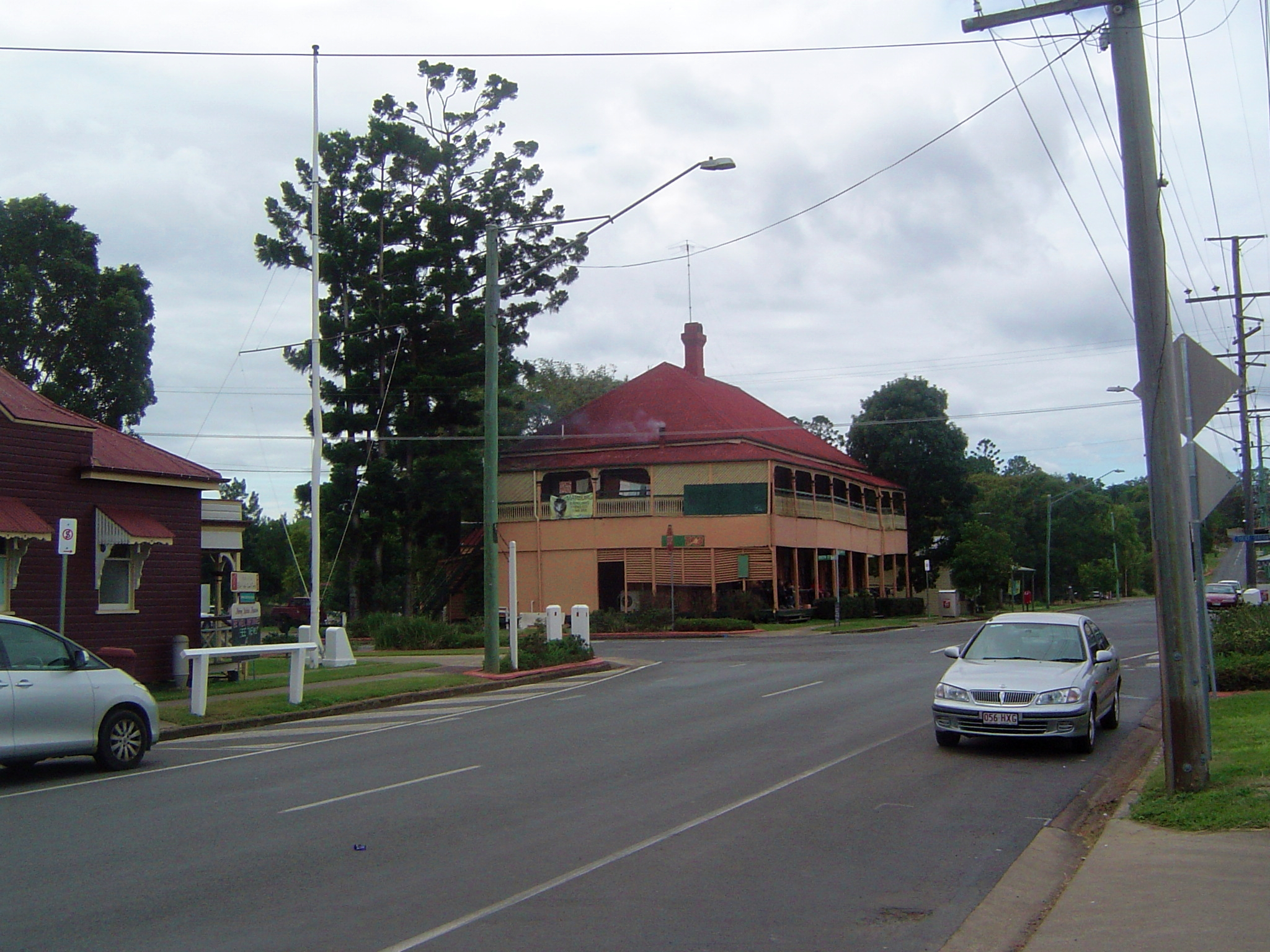 Photo of intersection of Edmond Street and Queen Street in the town of Marburg in South East Queensland, Australia